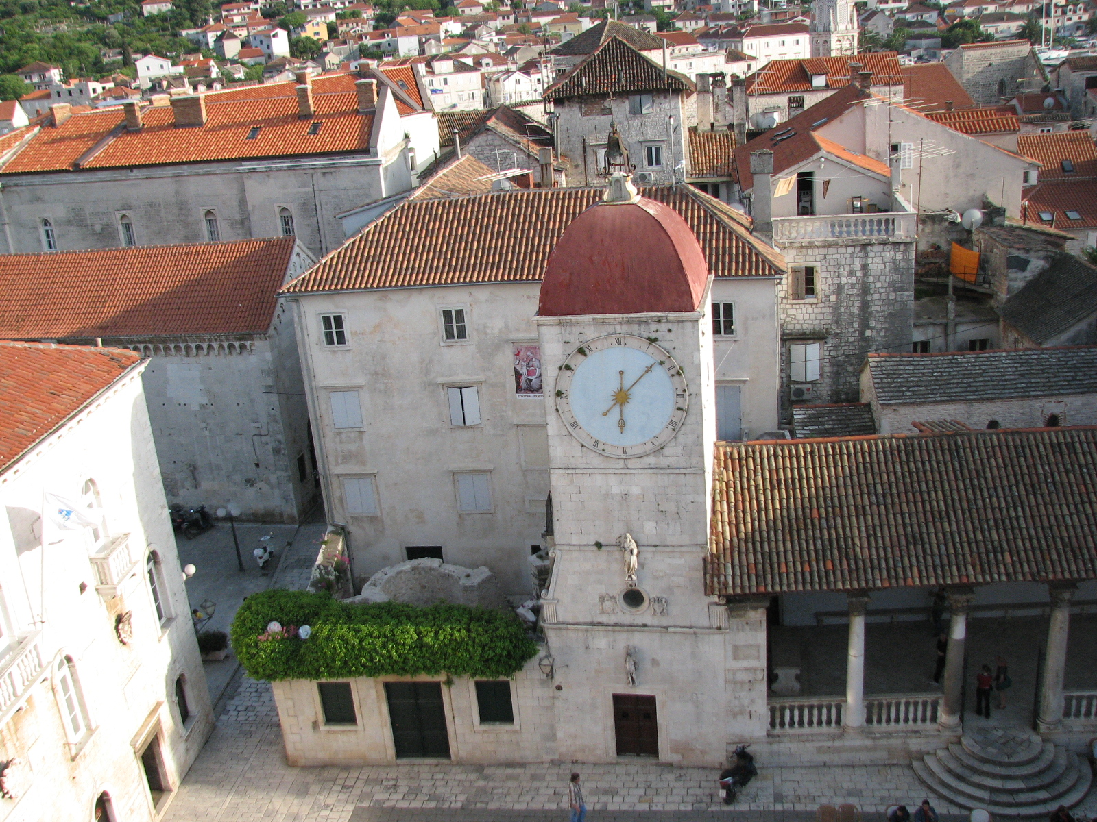 Clock tower in Trogir (Croatia)